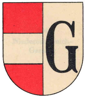 Coat of arms of Gaming, Lower Austria